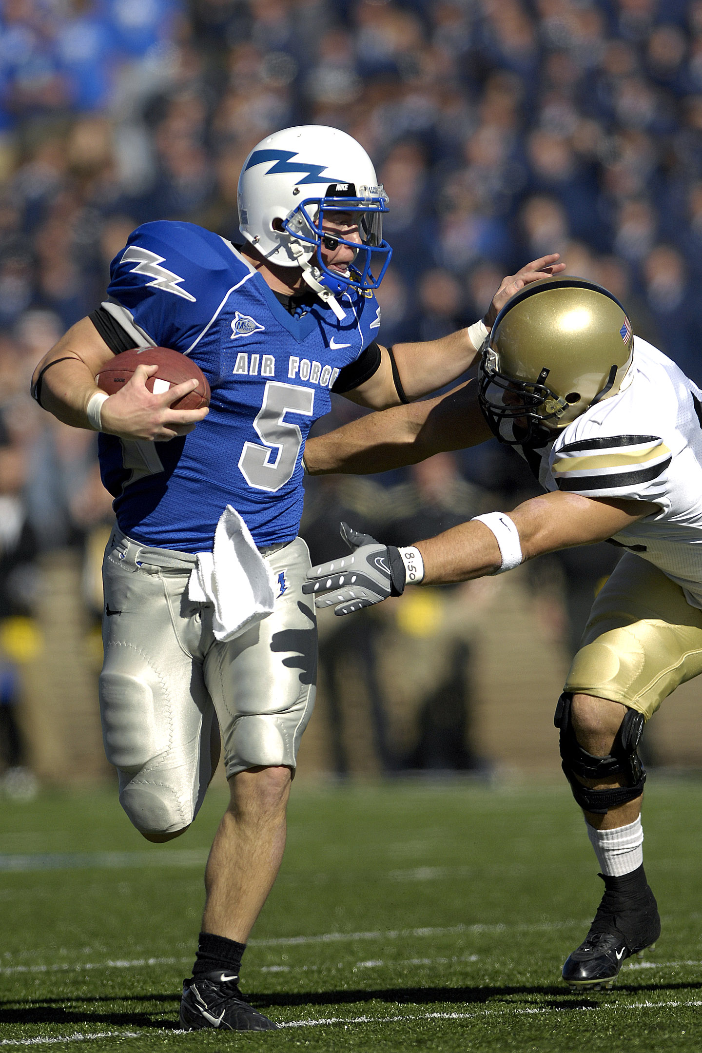 Quarterback Shaun Carney rushing